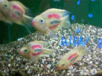 Blood parrot cichlids from a pet shop in Fairmount, New York. The fish was painted (or dyed) and labelled "Tattoo Parrot Cichlids". This image was taken by me using a cell phone.